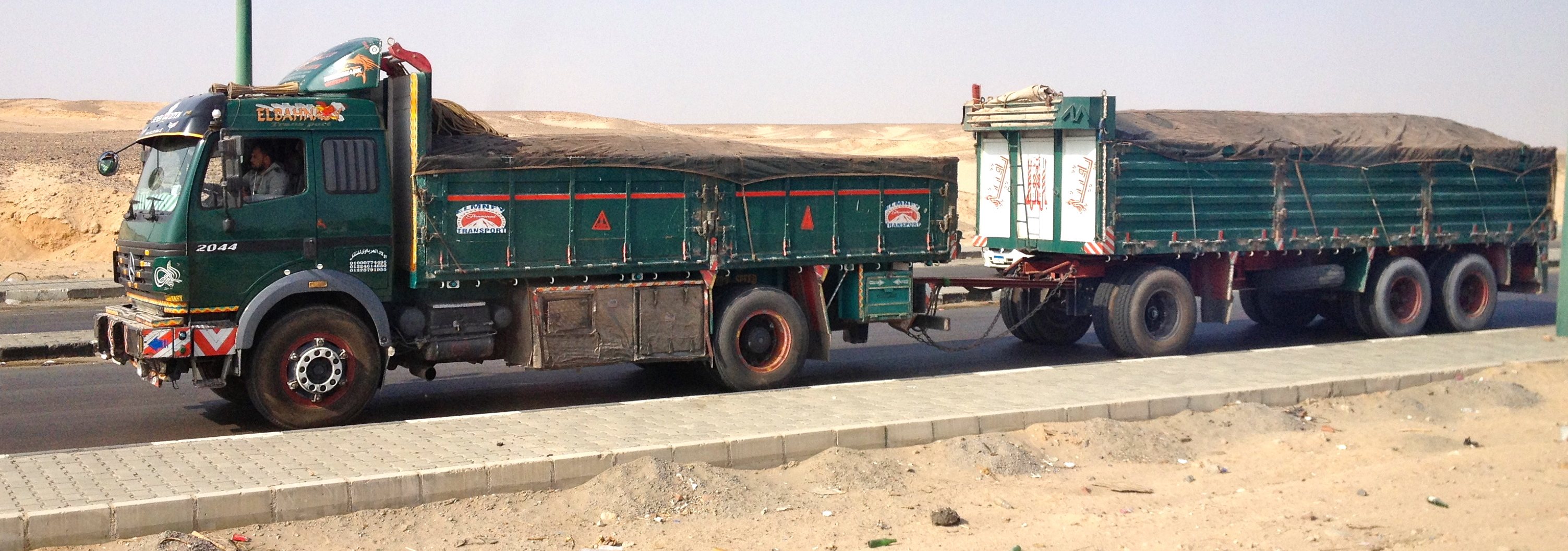 Truck on the road between Hurghada and Safaga